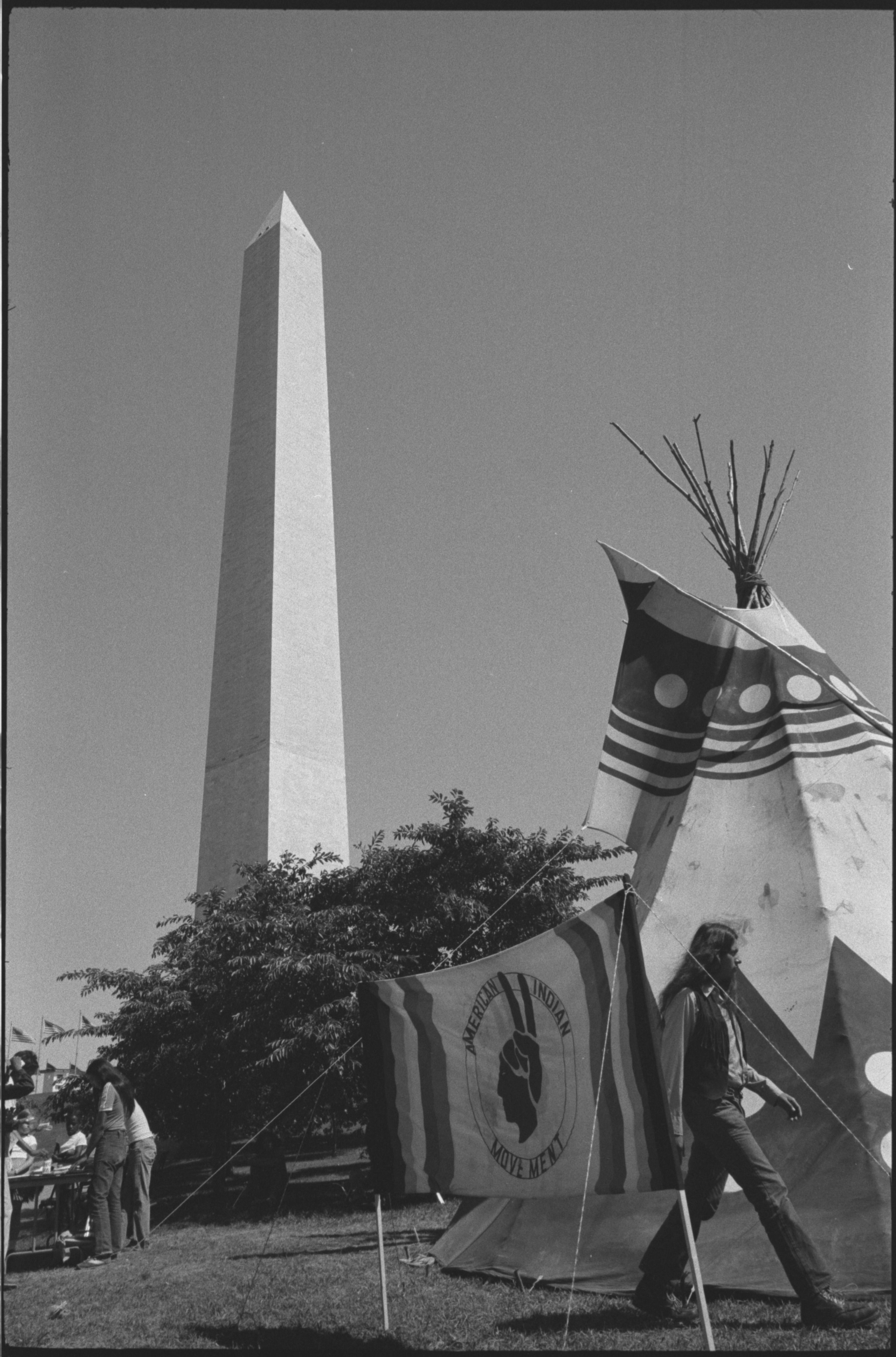 [Tipi with sign "American Indian Movement" on the grounds of the Washington Monument, Washington, D.C., during the "Longest walk"]